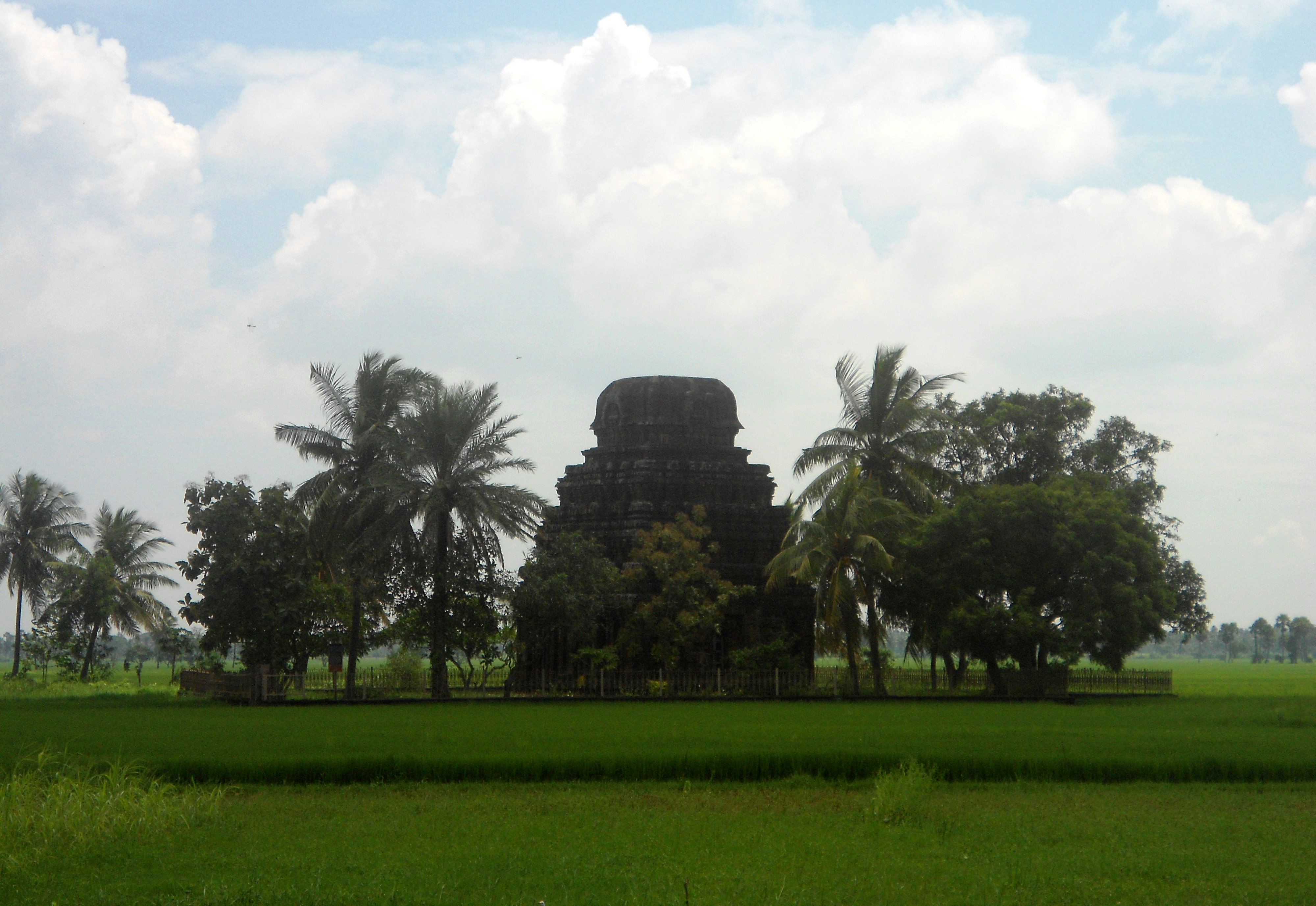 Semi ruined Shiva temple at fields of Biccavolu in East Godavari district